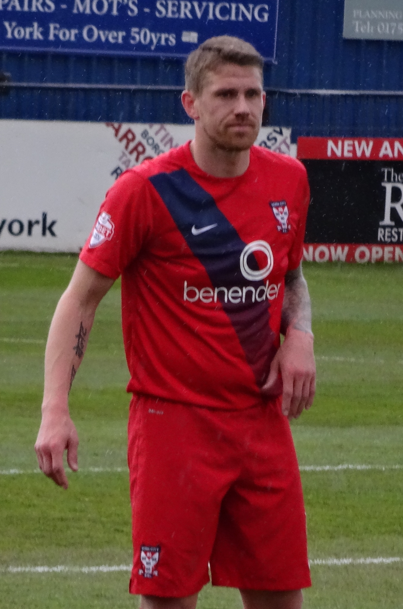 Scot Bennett playing for York City against Bristol Rovers at Bootham Crescent, York on 30 April 2016